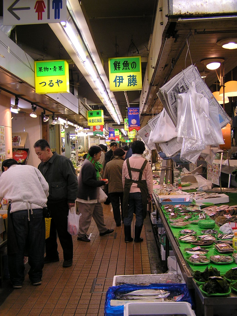 Inside of Oka Bilmarket